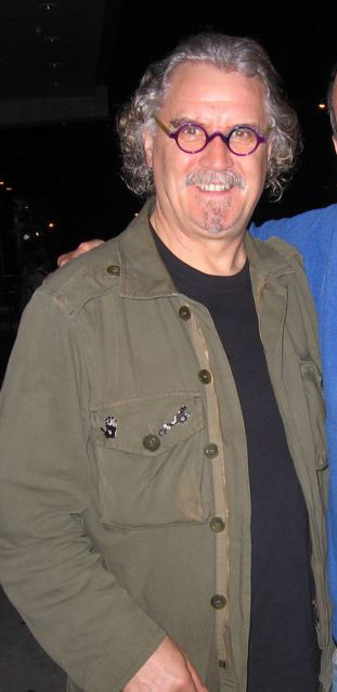 Billy Connolly. Scottish actor and comedian. Image altered from original source.